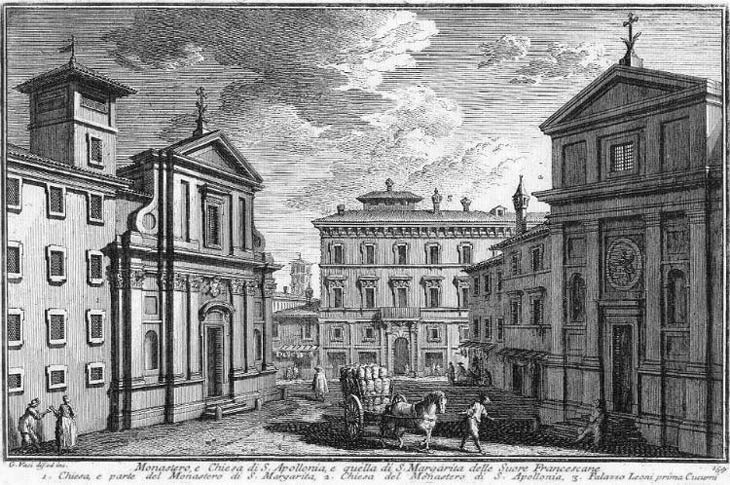 1) S. Margherita; 2) S. Apollonia; 3) Palazzo Leoni.